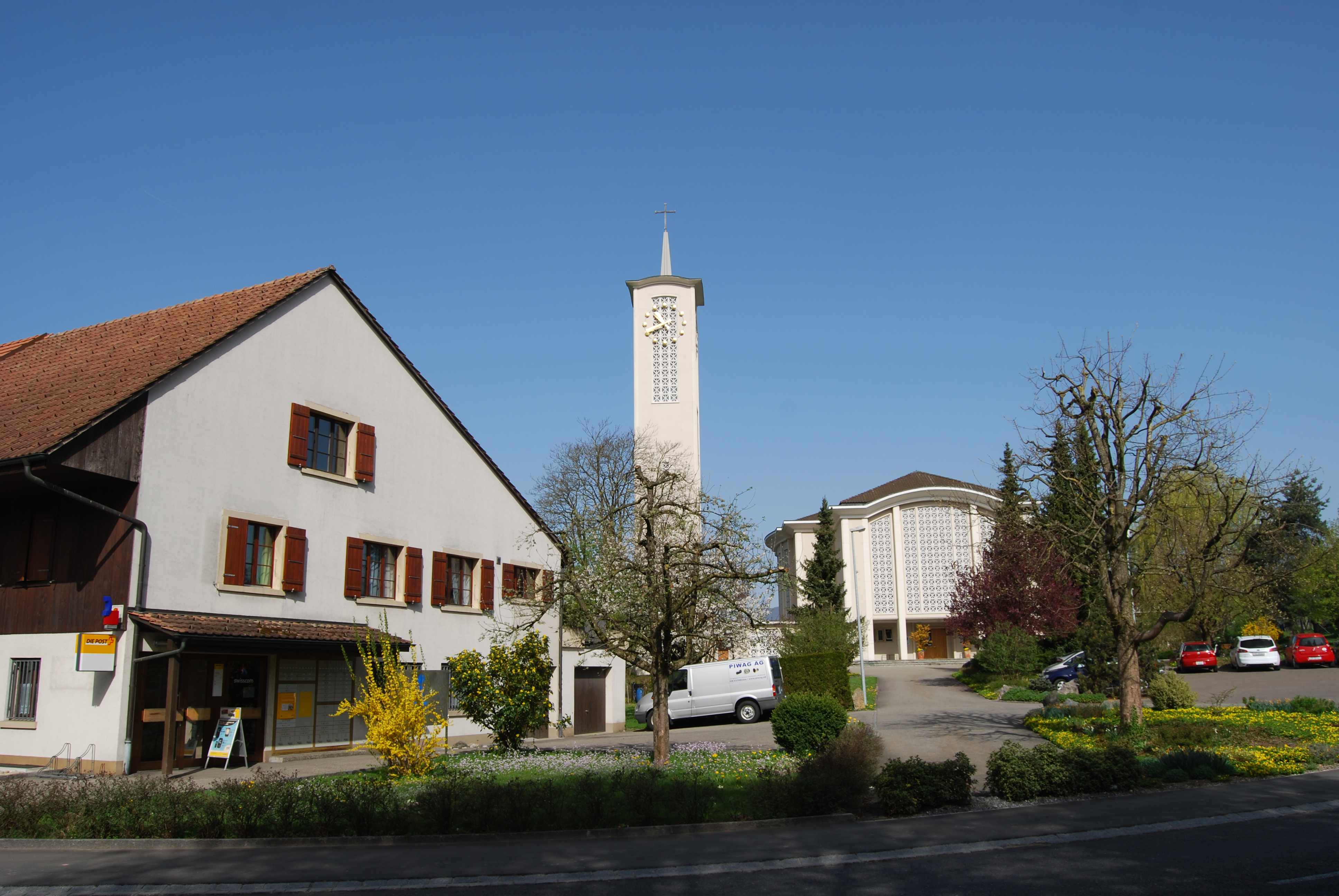 Post office and church of Fulenbach, canton of Solothurn, Switzerland